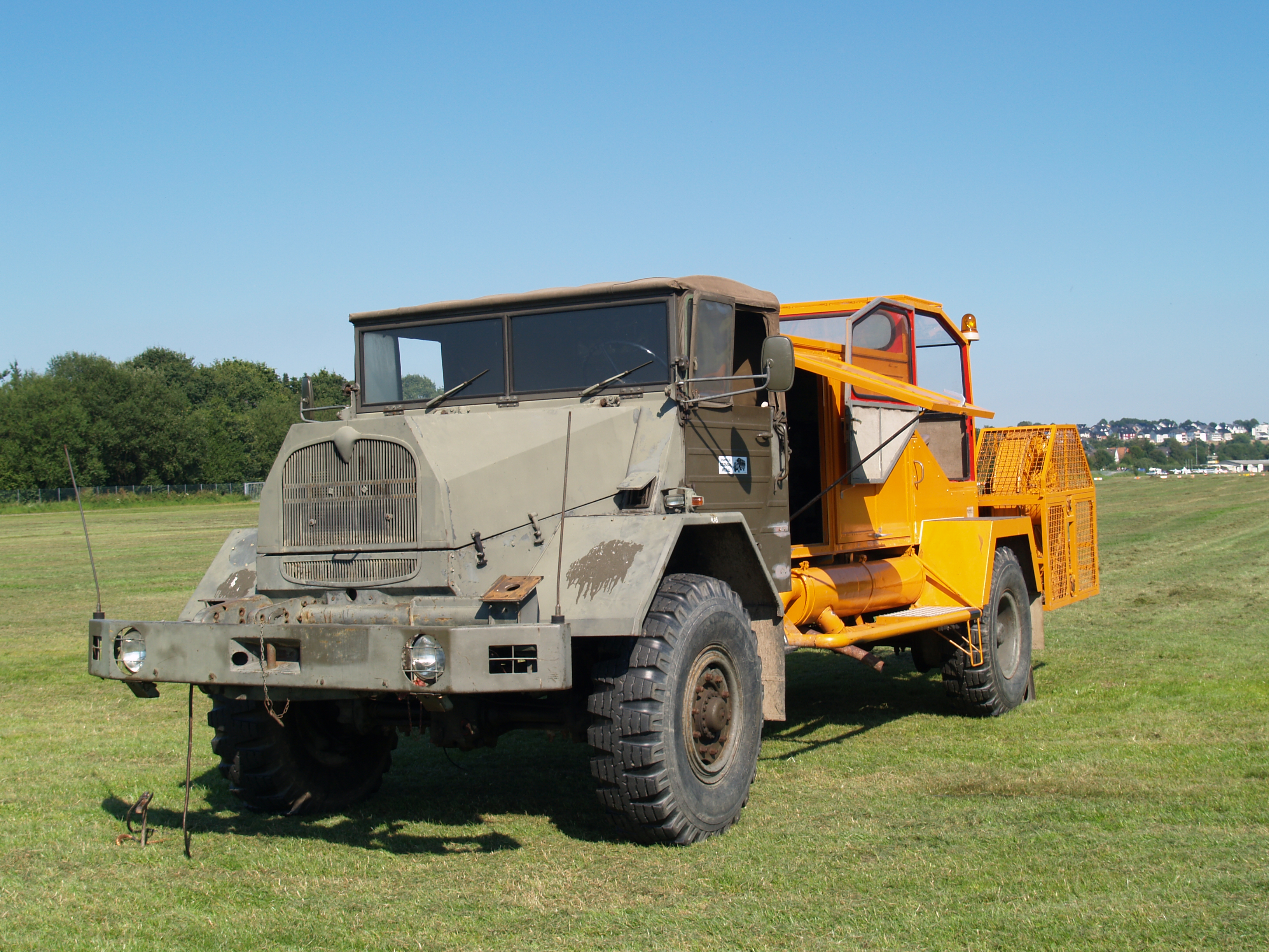 A MAN 630 L2AE which has been remodeled into an glider-launching-winch.